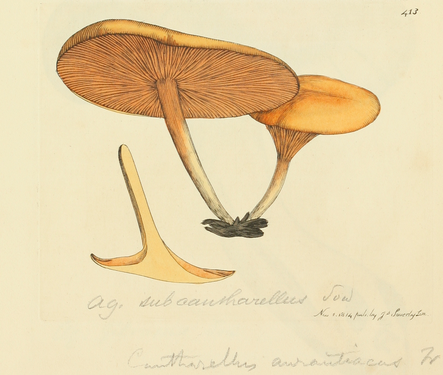 This is a plate from James Sowerby's Coloured Figures of English Fungi or Mushrooms.